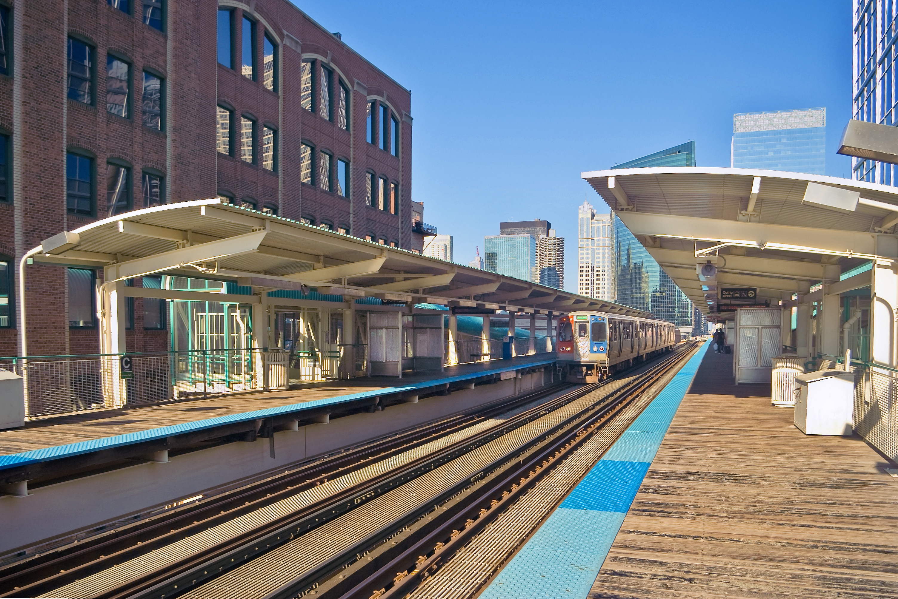 Clinton Station on the CTA Green and Pink Lines